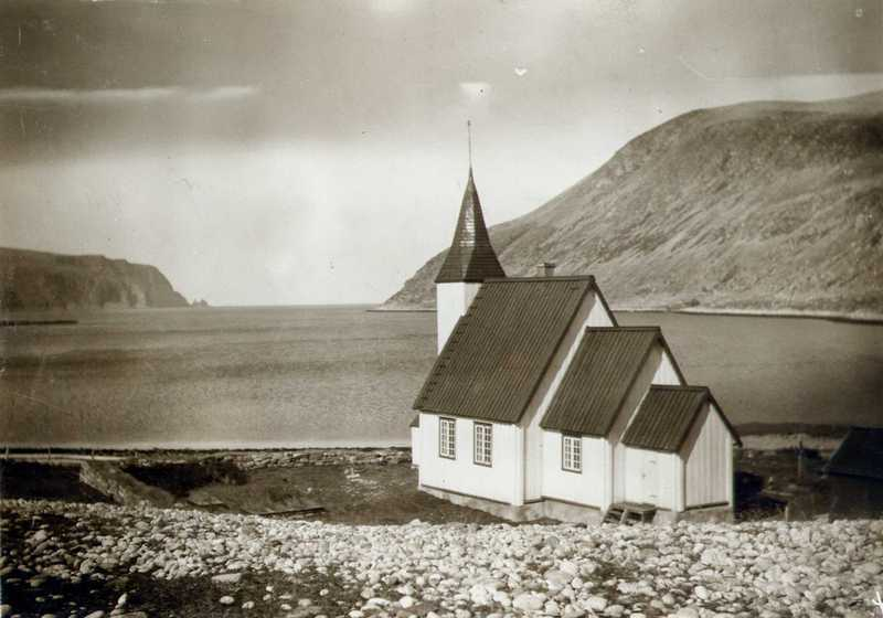 The church in Kjøllefjord that was burned by the Germans in 1944. A new church was built after the war and consecrated in 1951.